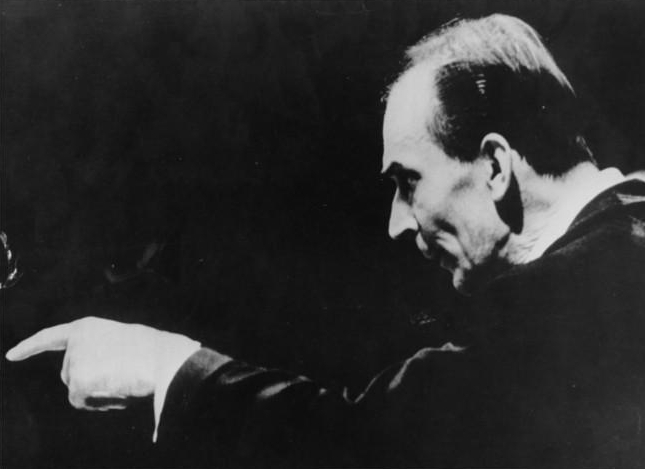 Ukrainian-born conductor and composer Igor Markevitch (1912-1983).